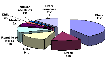 The chart shows the emission reductions (CER's) expected from CDM projects by country in which the emissions were reduced. Original title: "expected average annual CERs from registered projects by host party. Total: 113,864,545 Note: it concerns projects that are already registered, but because the projects are ongoing, they talk of 'expected' emission reductions in contrast to verified emission reductions which can only be established later.